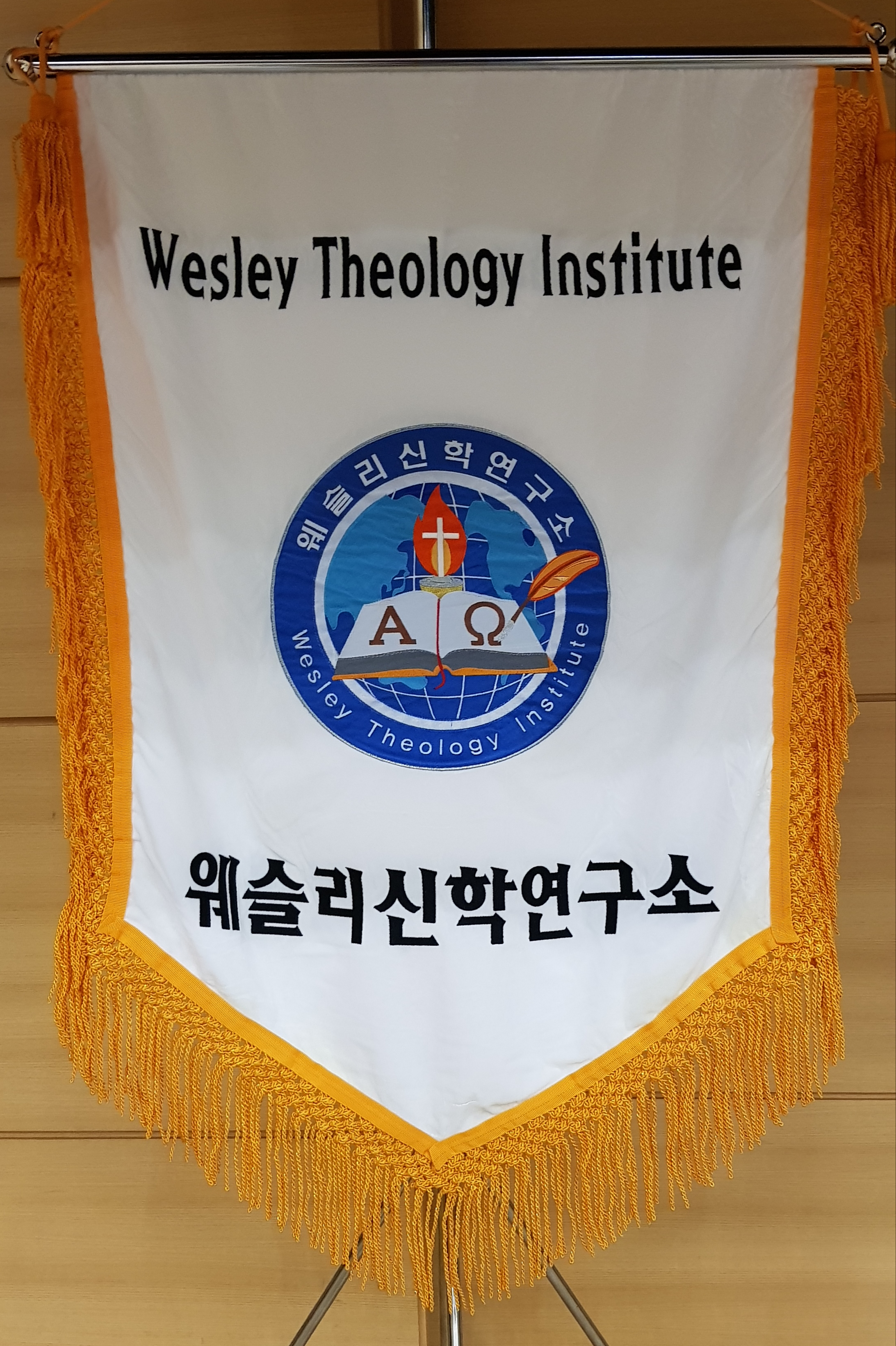 Banner of Wesley Theology Institute